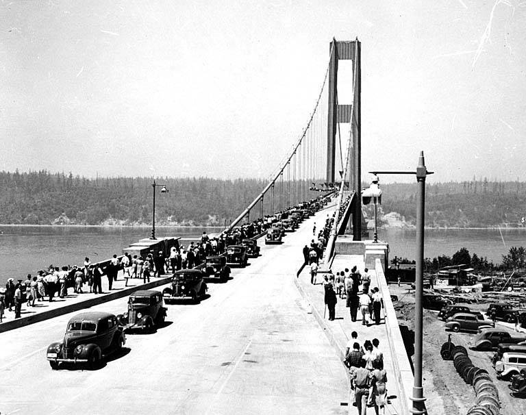 Opening day of the Tacoma Narrows Bridge, Tacoma, Washington, July 1, 1940 Photographer: Unknown Subjects (LCSH): Tacoma Narrows Bridge (Tacoma, Wash. : 1940) Bridges--Washington (State)--Tacoma Narrows Automobiles--Washington (State)--Tacoma Crowds--Washington (State)--Tacoma Tacoma Narrows (Tacoma, Wash.) Straits--Washington (State)--Tacoma Digital Collection: Tacoma Narrows Bridge Collection Item Number: FAR008 Persistent URL: Visit Special Collections reproductions and rights page for information on ordering a copy. University of Washington Libraries. Digital Collections